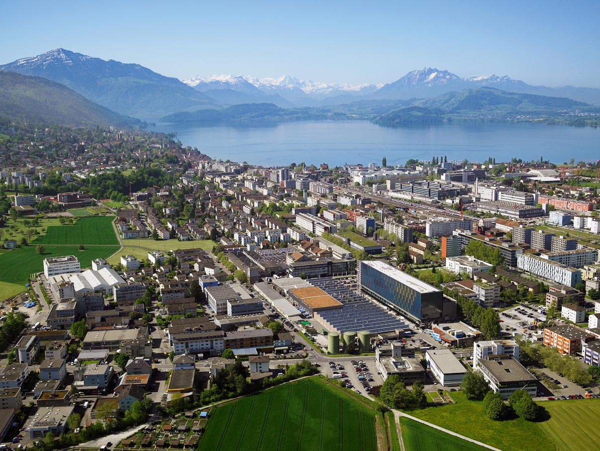 Headquarter V-ZUG Ltd, Zug, Switzerland